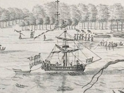 Image showing a chialoup from cropped drawing, Het Gezicht van Cheribon by Johannes Rach.